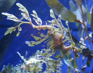 Leafy Sea Dragon photo This photo of a leafy sea dragon was taken in July of 2002 at the Aquarium of the Pacific in Long Beach. Image copyright John T. Alfors 2002.